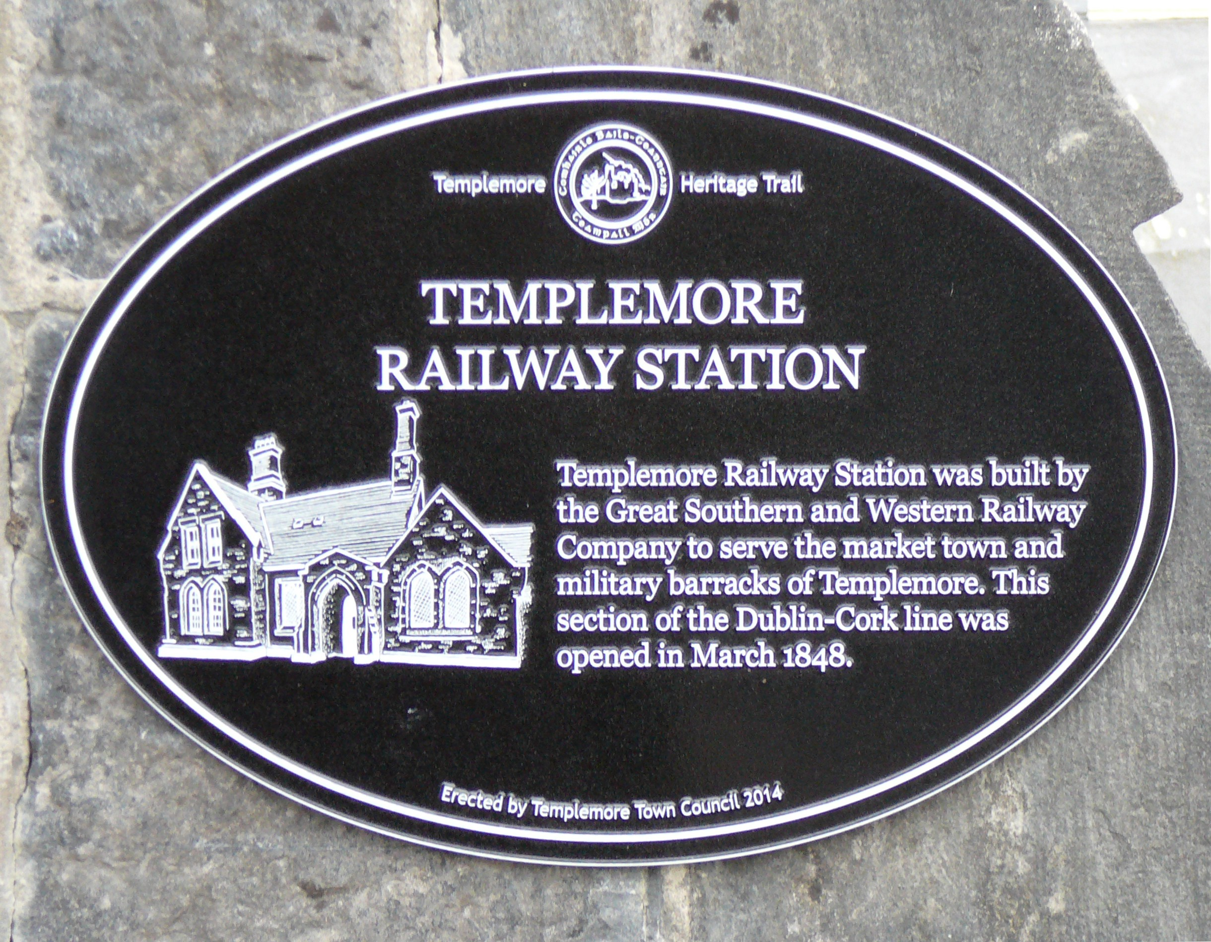 Heritage Trail Plaque displayed at the entrance to Templemore Railway Station, with the text Templemore Station was built by the Great Southern and Western Railway Company to serve the market town and military barracks at Templemore. This section of the Dublin-Cork line was opened in March 1848. Erected by Templemore Town Council 2014.